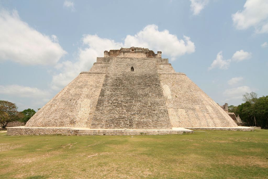 Pyramid of the Magician, Uxmal/Mexico, seen from the east